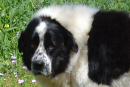 Greek Shepherd